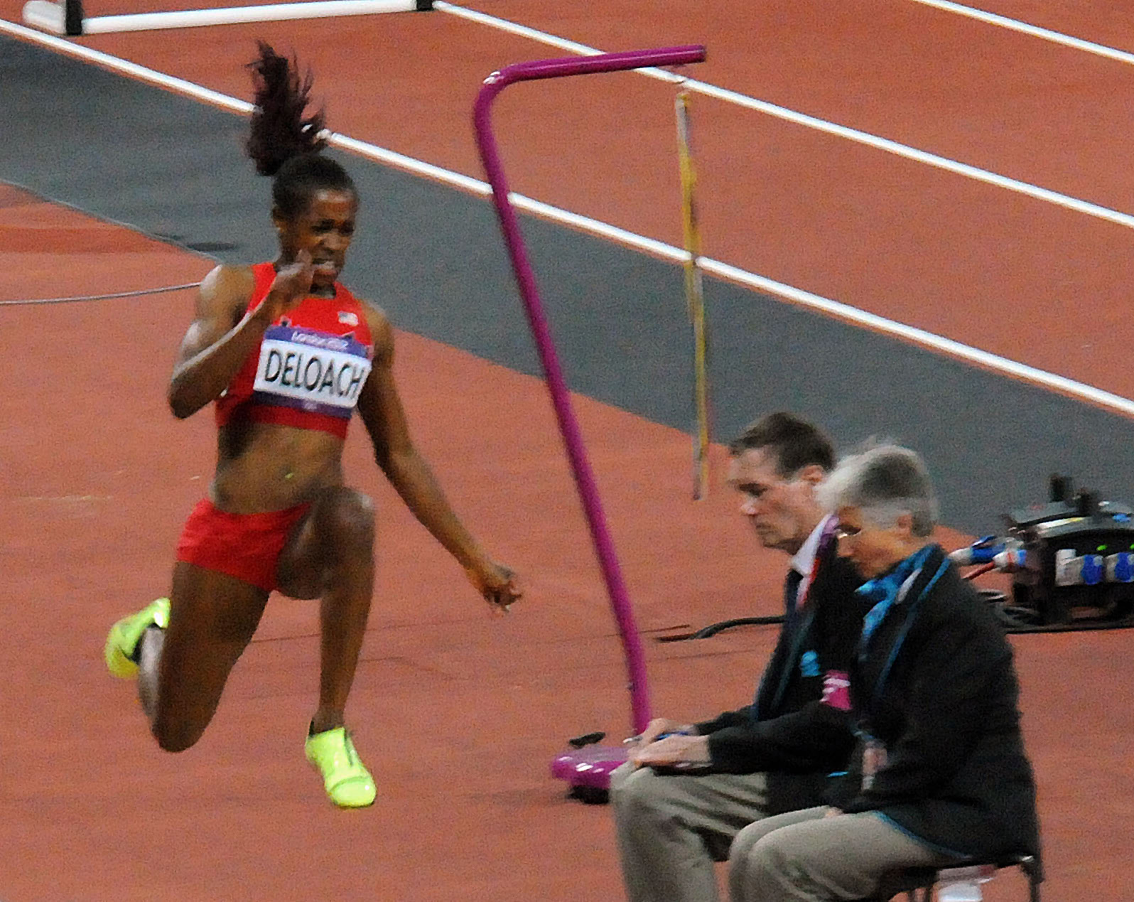 Janay DeLoach prepares to make her third long jump Aug. 8, 2012, at Olympic Stadium in London. She finished the night with a bronze medal in the event.